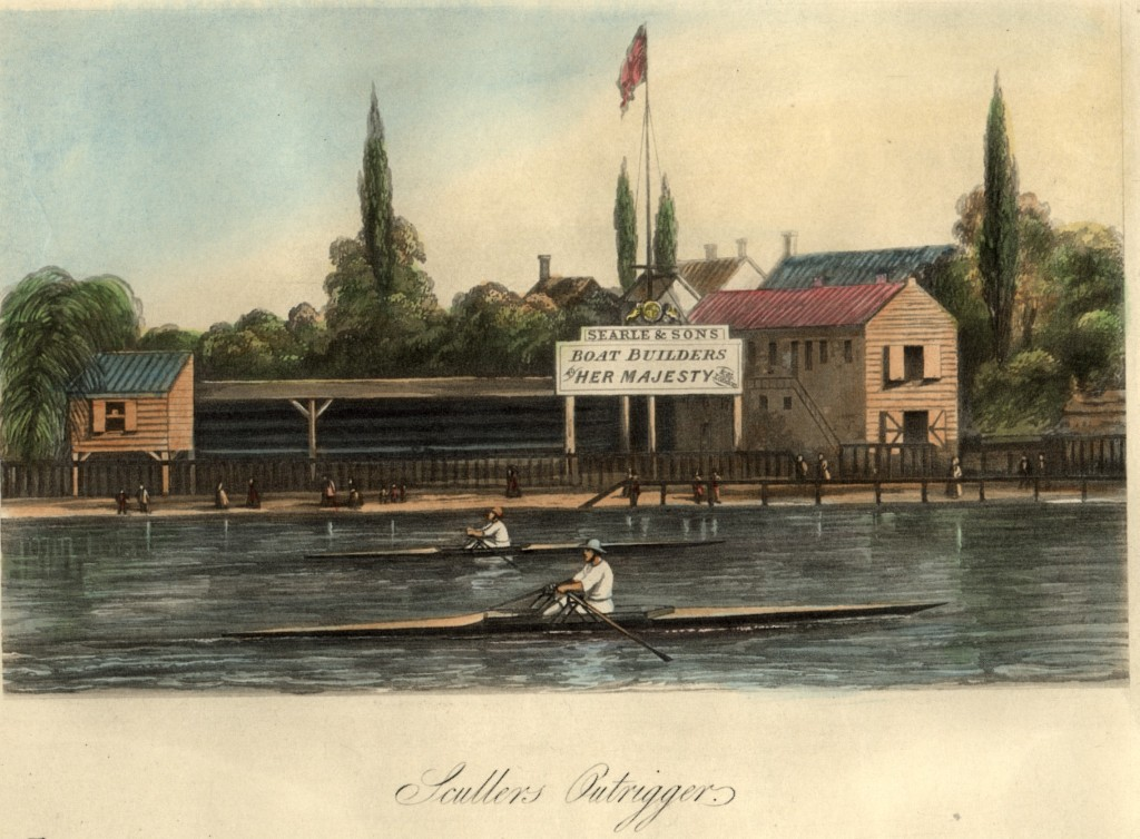 Scullers with outriggers, no sliding seats - colored engraving - 1851